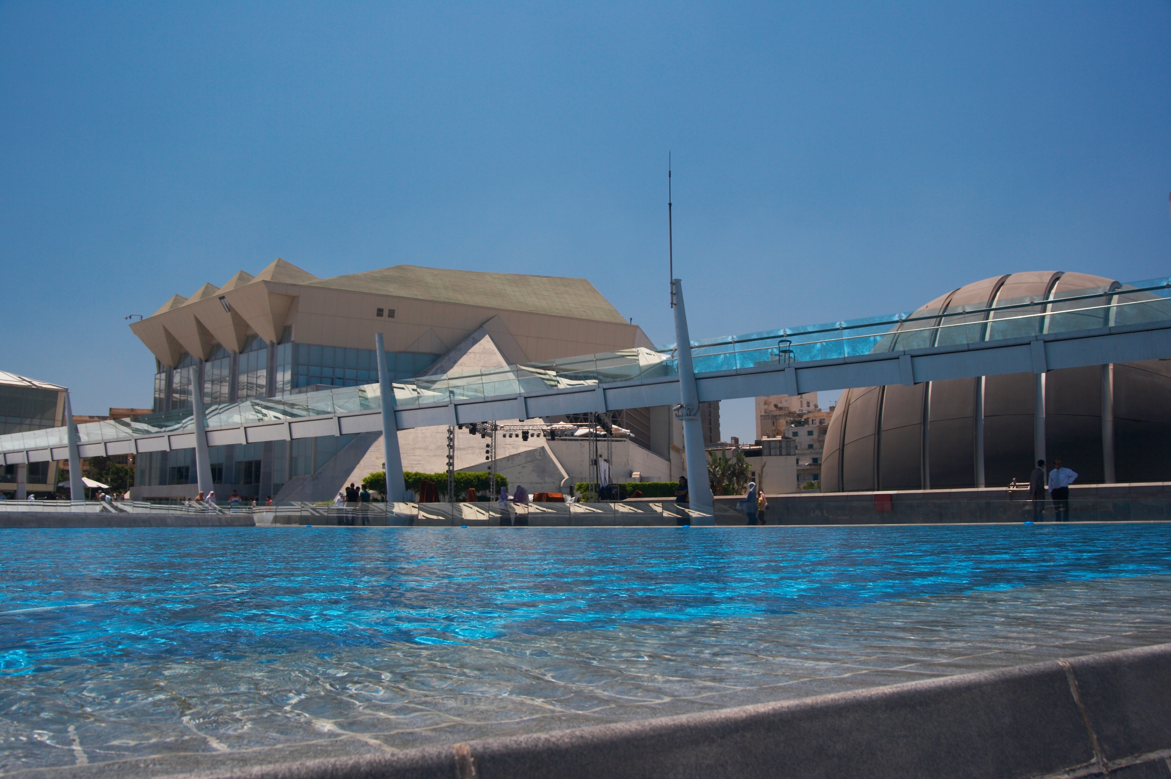 Bibliotheca Alexandrina, Egypt.